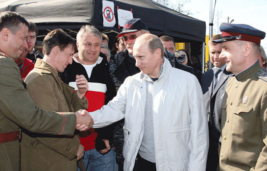 Vladimir Putin visited the survey ground of the Nikita Mikhalkov's film Burnt by the Sun-2 in Shushary village